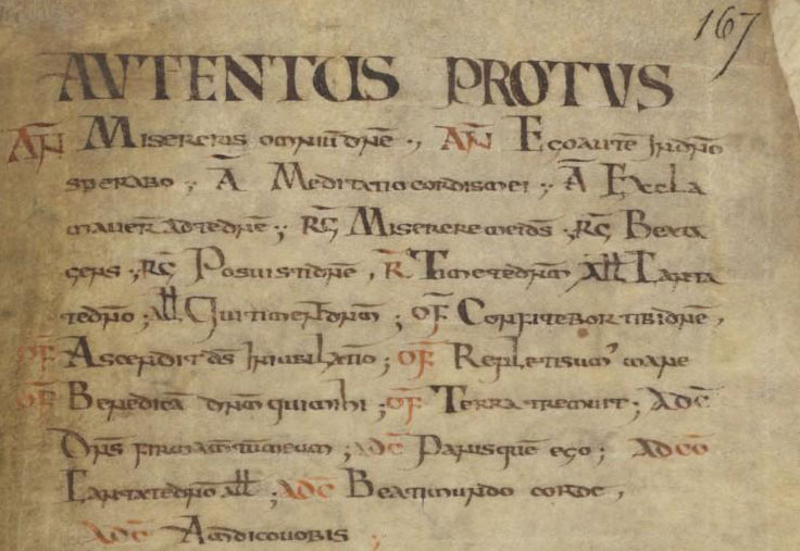 Beginning of the tonary-fragment of Saint-Riquier (section of the autentus protus)—one of the oldest Carolingian tonaries, "Psalter of Charlemagne" (8th century)